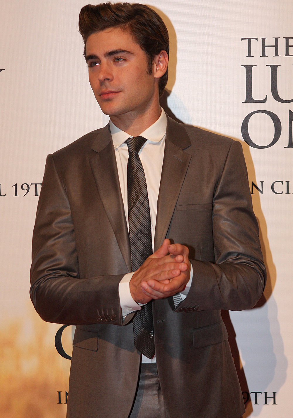 The Lucky One: Zac Efron, The World Premiere At Bondi Juction, Sydney, Australia 2012.